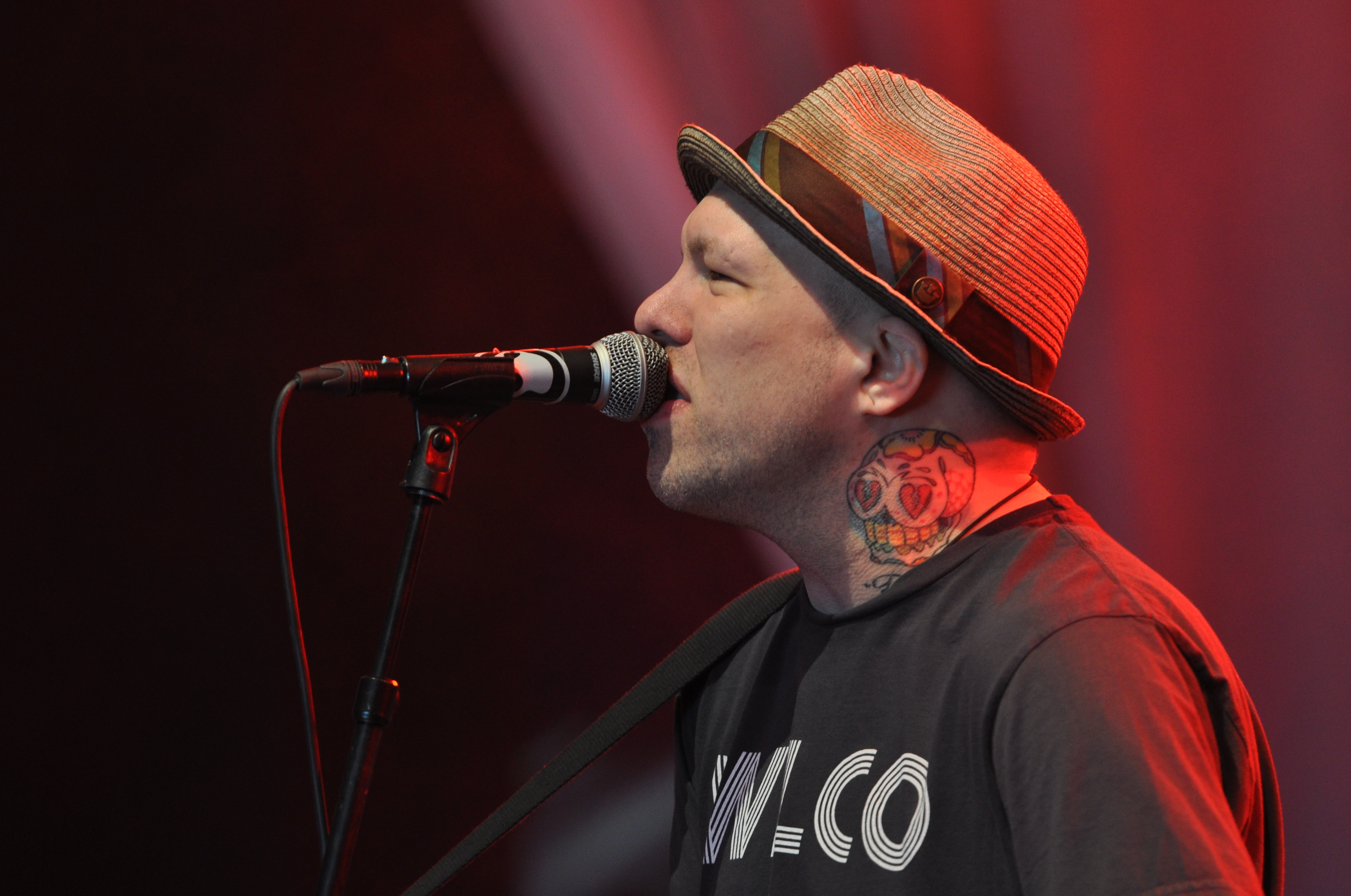 Kristopher Roe, frontman of The Ataris, in an acoustic solo at Groezrock 2013, Belgium